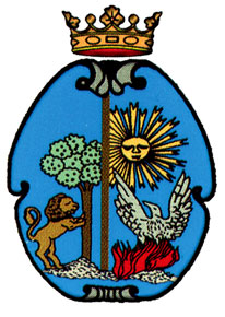 Coat of arms of Ferla (province of Siracusa, Sicily, Italy)